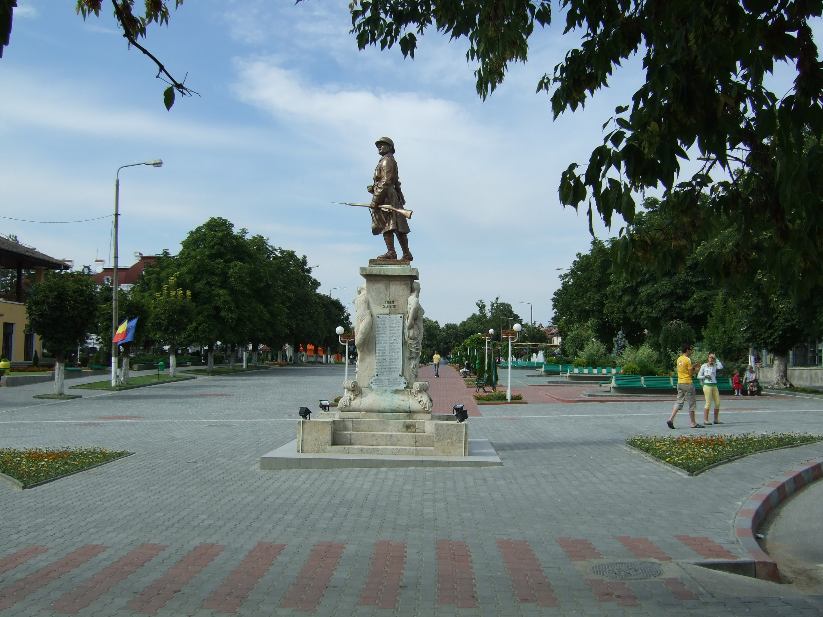 Photograph of a monument in Calafat, supposedly near Tudor Vladimirescu boulevard. It shows a soldier with helmet and gun.